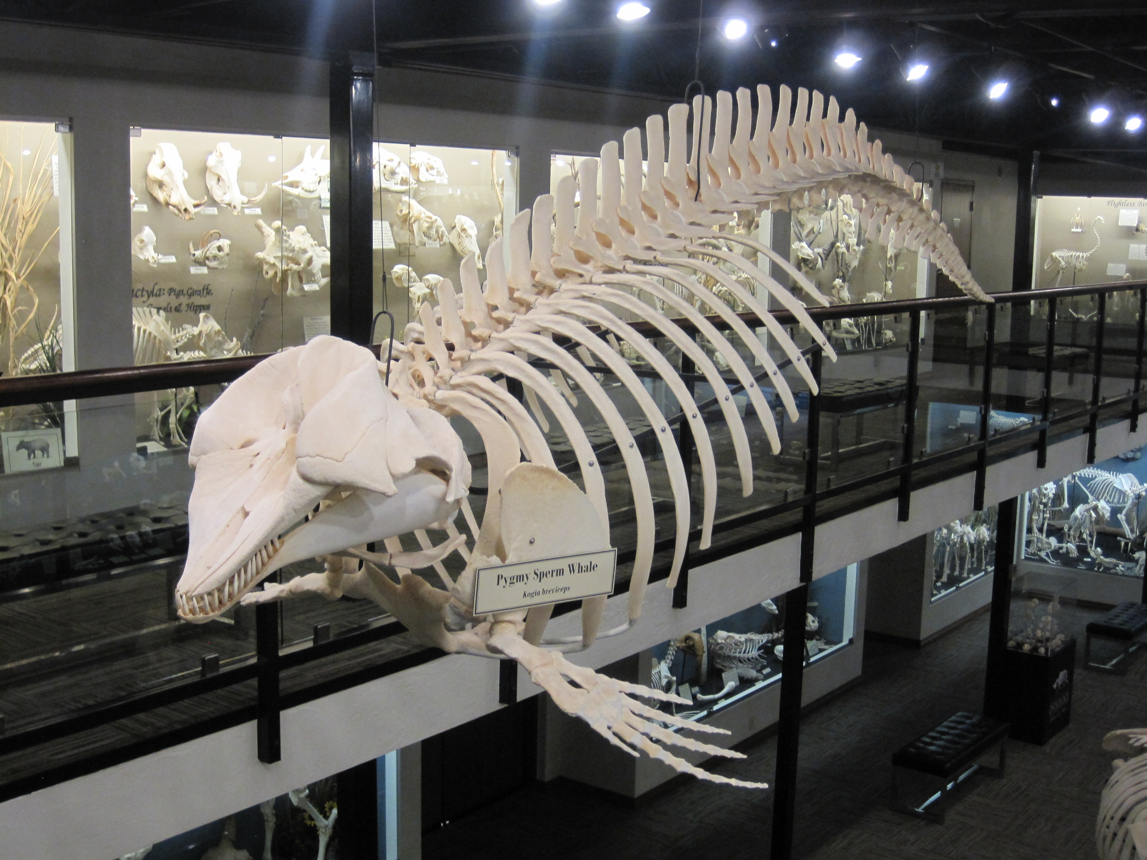 Pygmy sperm whale skeleton in an exhibition at the Museum of Osteology, Oklahoma City.